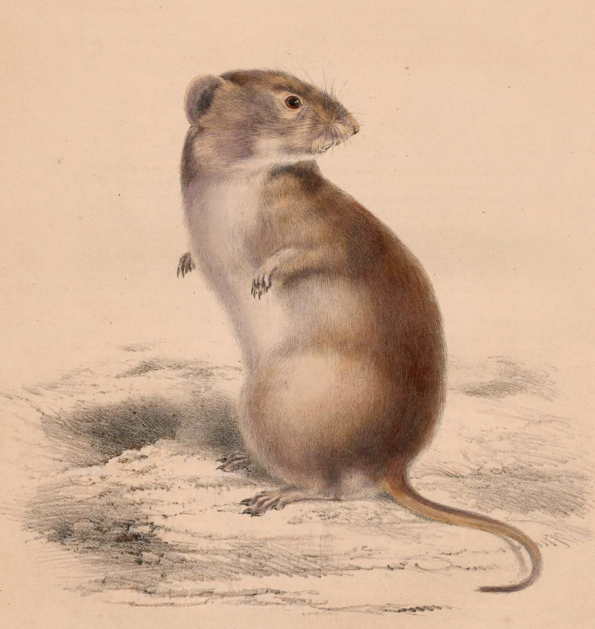 Parotomys brantsii [Smith, A. 1849. Illustrations of the zoology of South Africa: consisting chiefly of figures and descriptions of the objects of natural history collected during an expedition into the interior of South Africa, in the years 1834, 1835, and 1836, fitted out by the "Cape of Good Hope Association for exploring Central Africa". Vol 1. Mammalia (plate 24). Smith, Elder and Co. London.]